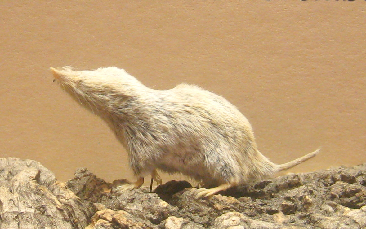 Cropped image of taxon in file name